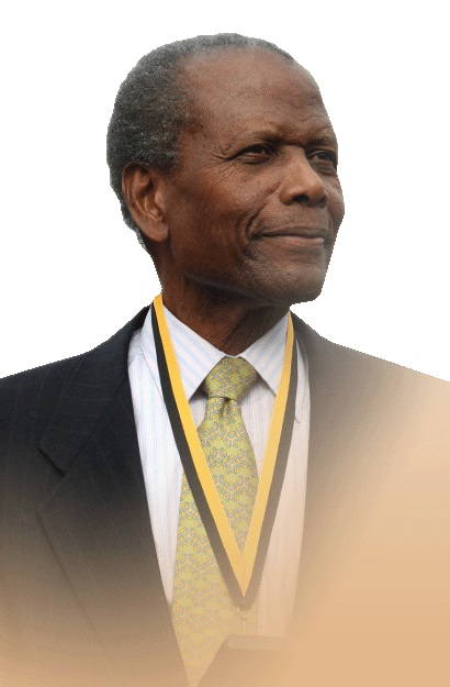 Actor and Ambassador Sidney Poitier.